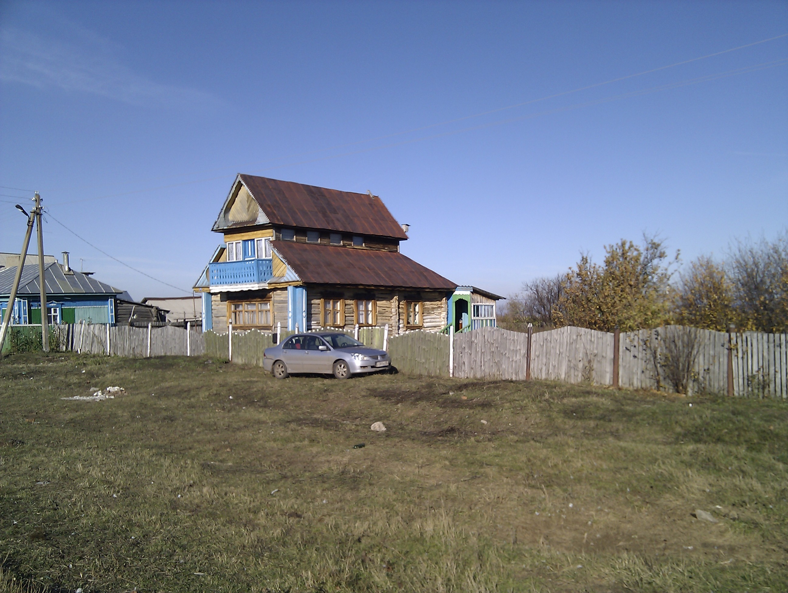 Bolotino, a Klyuchevaya street.